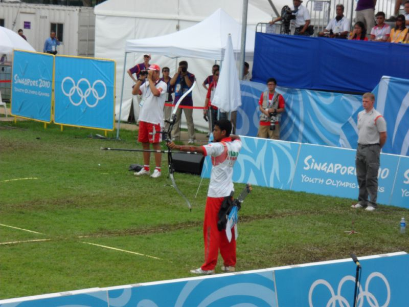 The archery competition at the 2010 Summer Youth Olympics taking place at Kallang Field, Singapore.